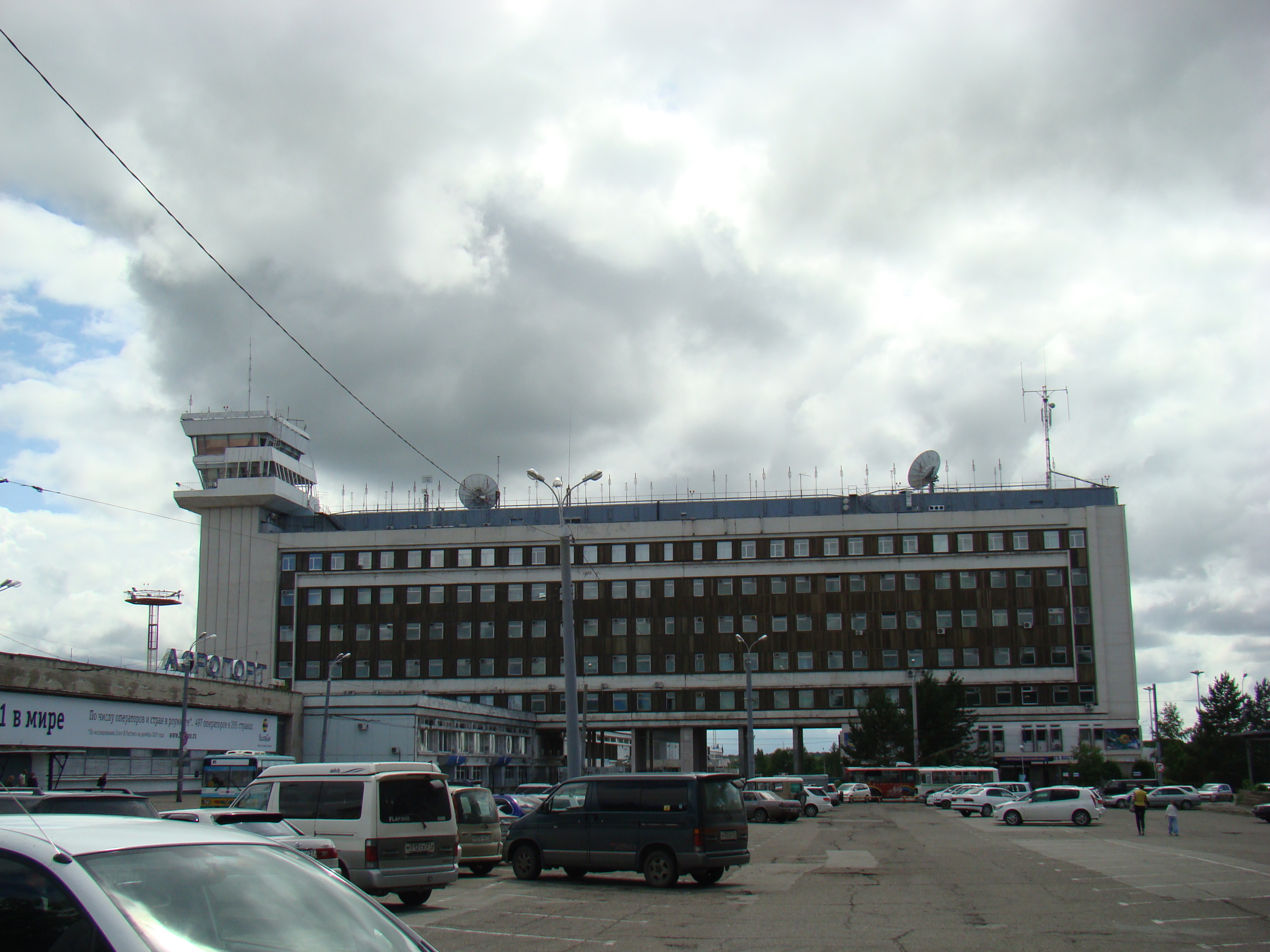 ATC tower of Khabarovsk airport "Novy", FSUE "State ATM Corporation"